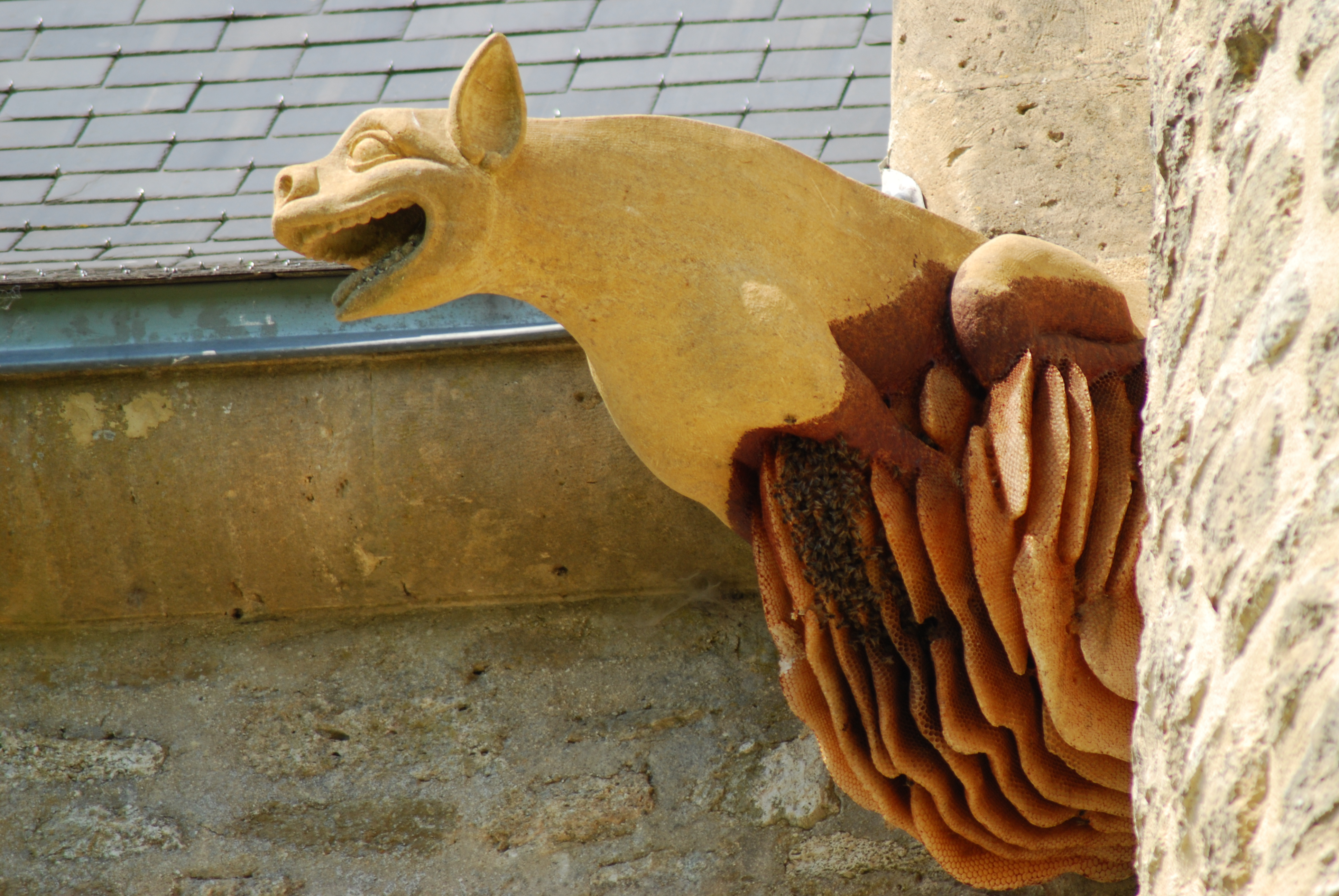 Gargoyle from East tower on south side of Landreville Castle, renovated in 2011.